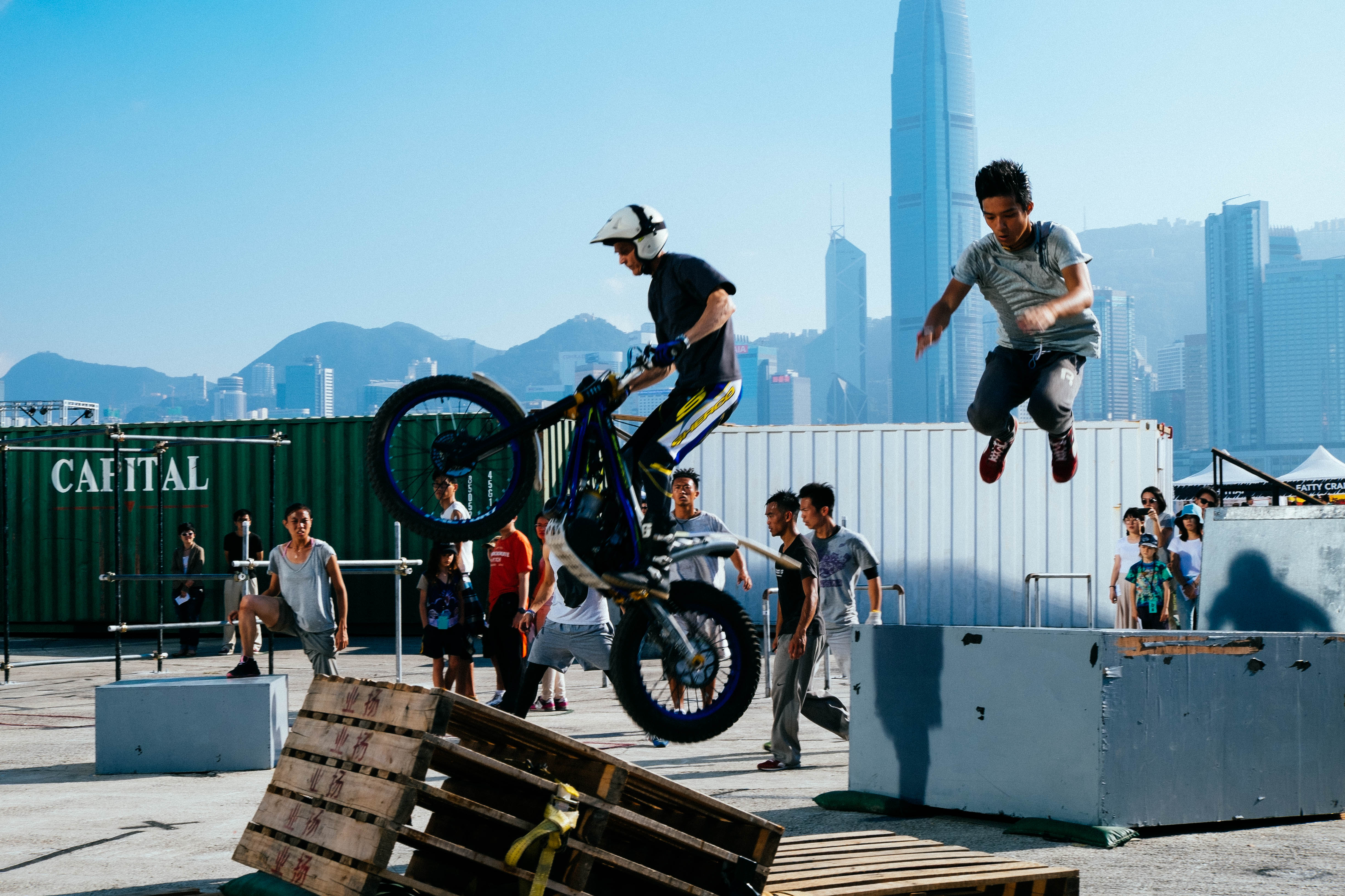 141122 - Free Space Fest 自由野 2014